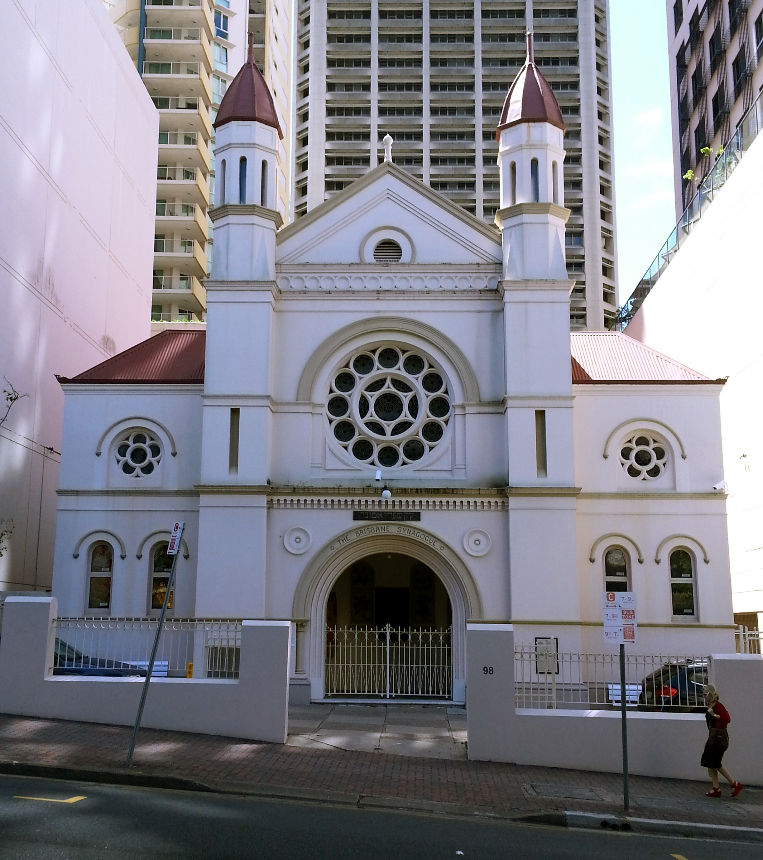 The front façade of the Brisbane Synagogue.